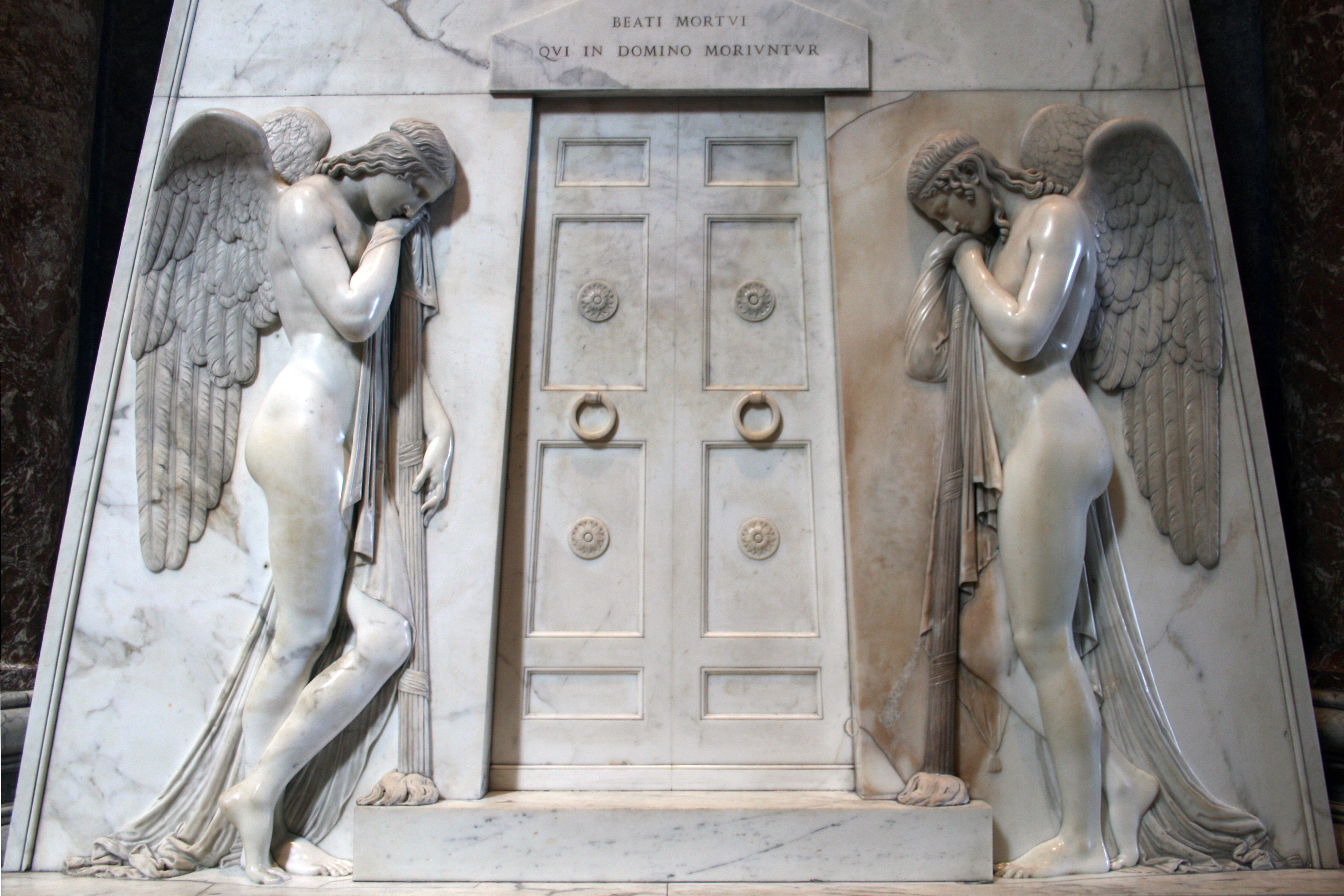 Tombstone of the last members of the House of Stuart, St. Peter's Basilica, Vatican (1819) - Work of Antonio Canova (1757–1822).